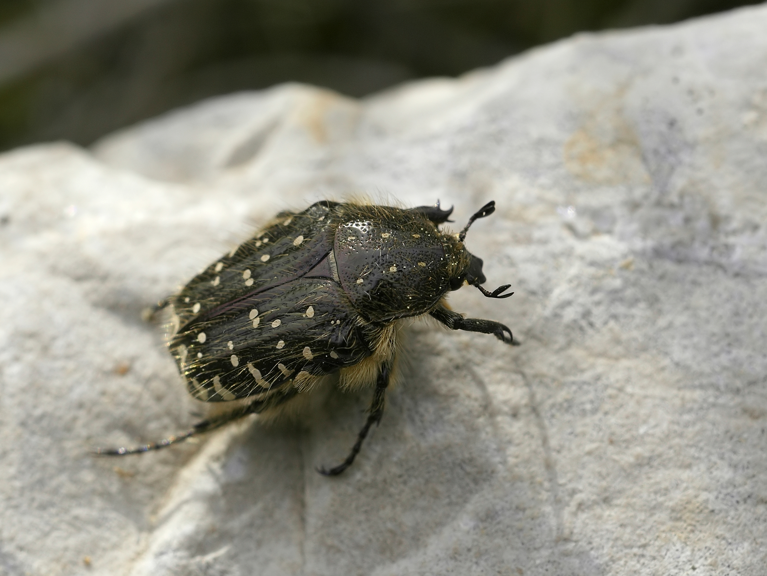 Near el Perelló, Catalonia, Spain